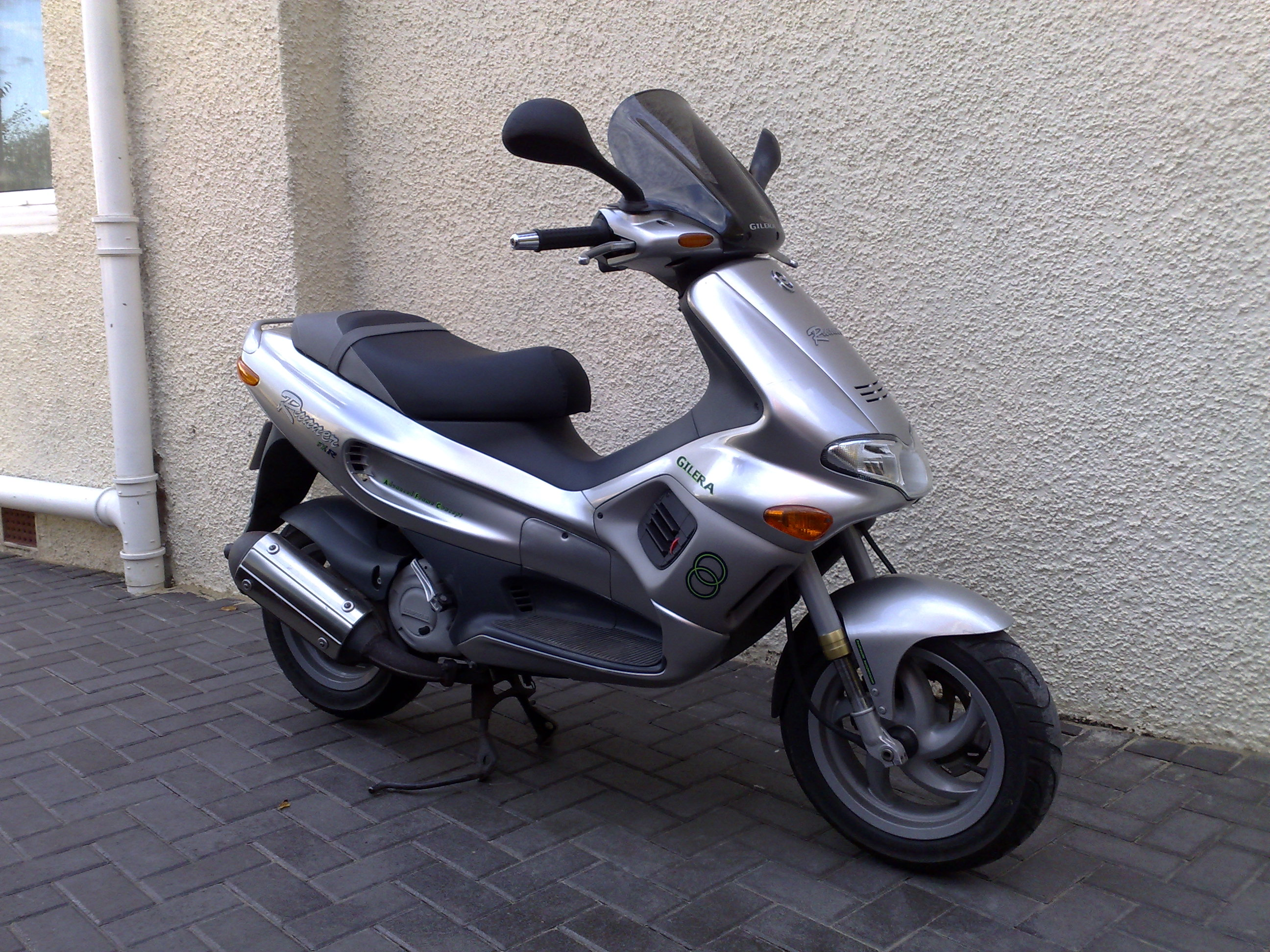 Photograph of 1999 Gilera Runner FXR 179cc